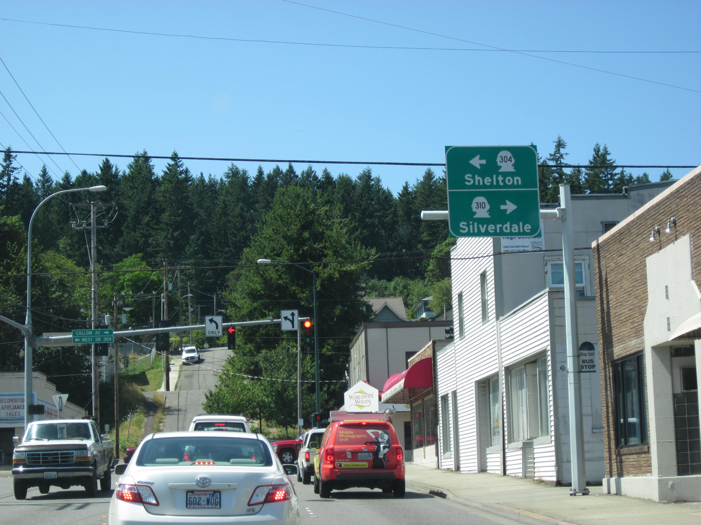 Washington State Route 304 (Burwell Street) westbound approaching the southern terminus of Washington State Route 310 (Callow Avenue) in Downtown Bremerton, Washington.